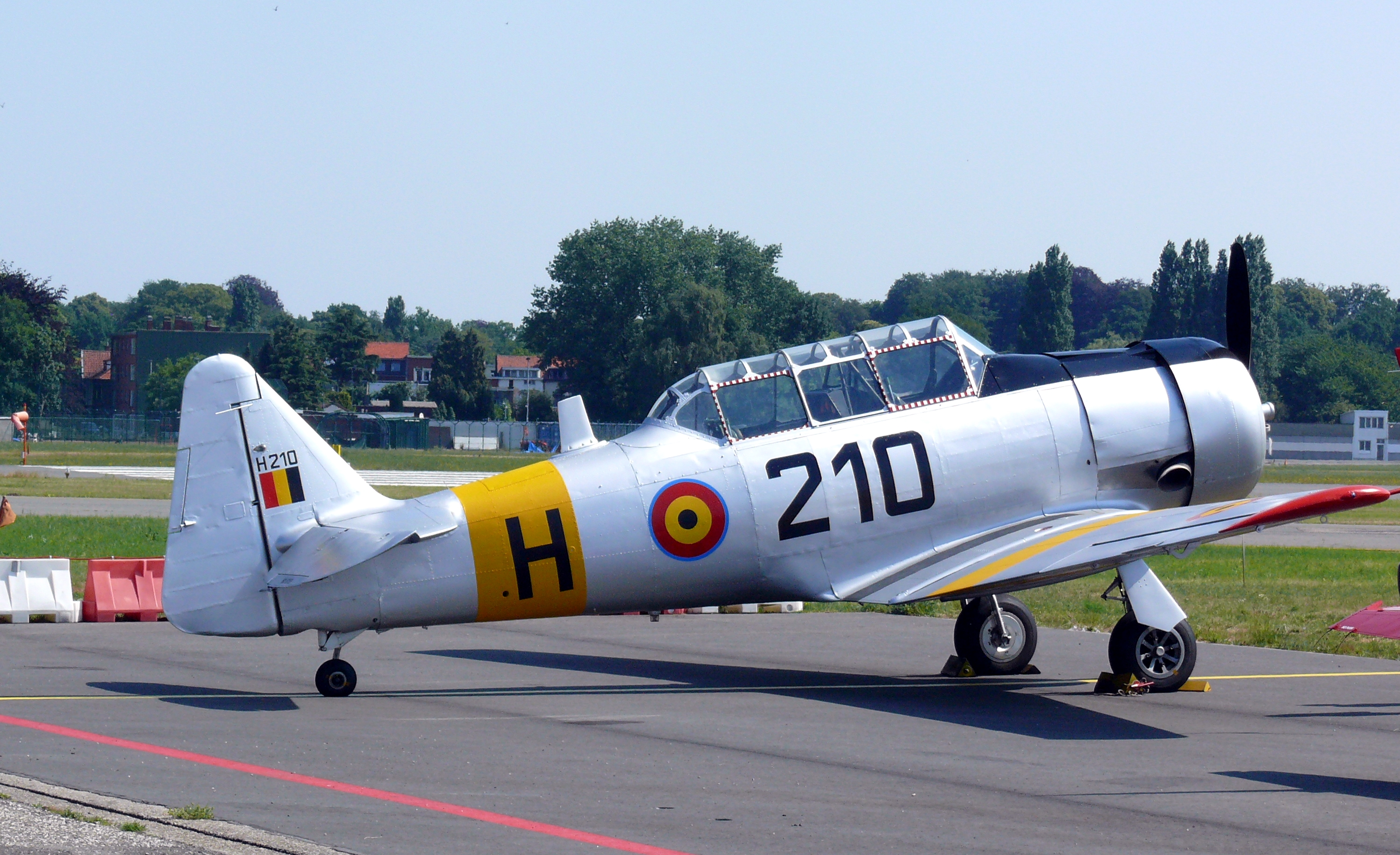 The North American Aviation T-6 Texan (also known as Harvard) was a single-engine advanced trainer aircraft used to train pilots of the Allied Air Forces during World War II and into the 1950s. The T-6G, like this one, are earlier models AT-6/T-6s re-built between 1949-1953, which have improved cockpit layout, increased fuel capacity, modified landing gear with steerable tailwheel, updated radios and a 600hp R-1340-AN-1 engine. This aeroplane served in the South African Air Force before it was bought by the Stampe en Vertongen Museum. It is now painted in the colours of the Belgian Air Force.